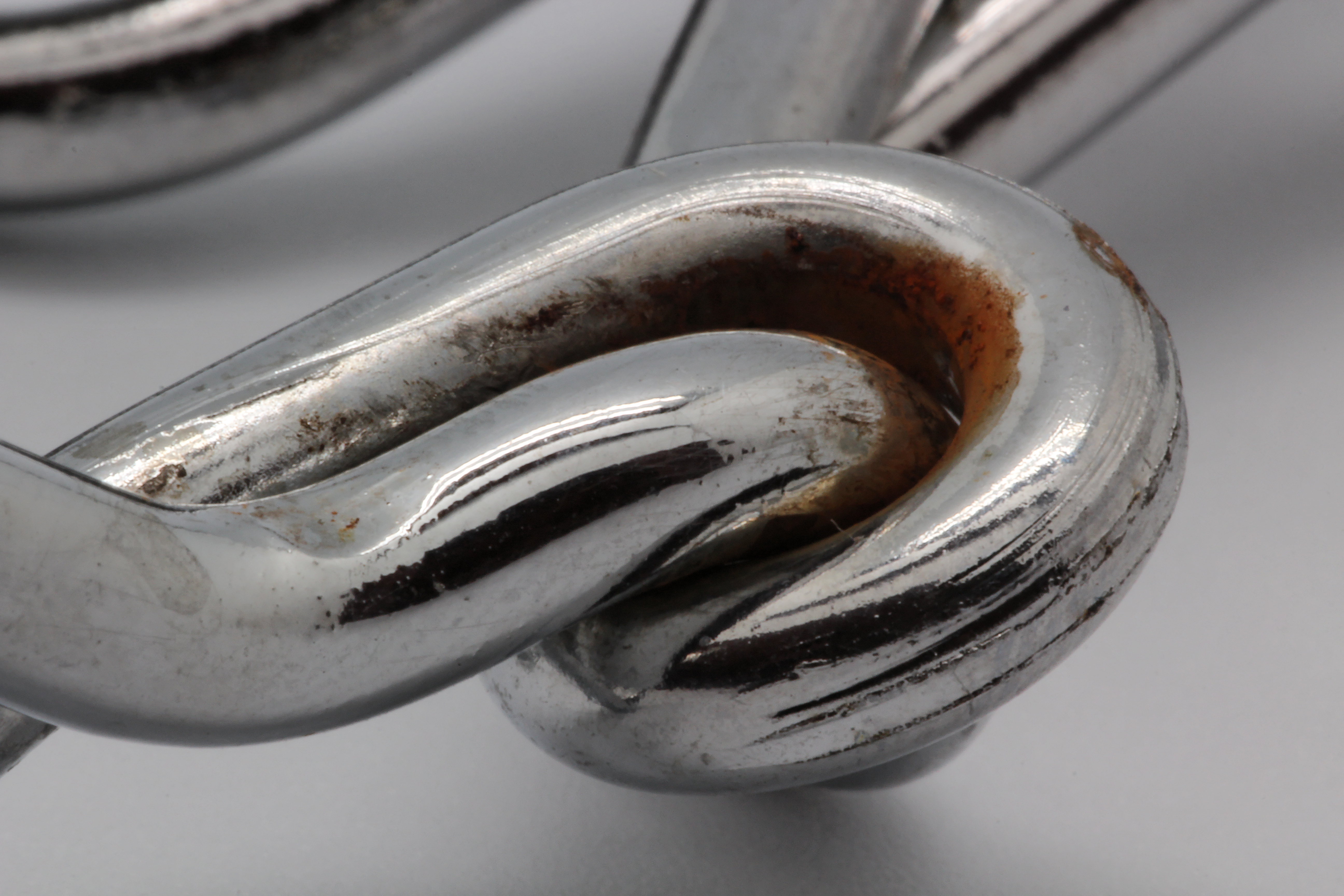 cookware pincers